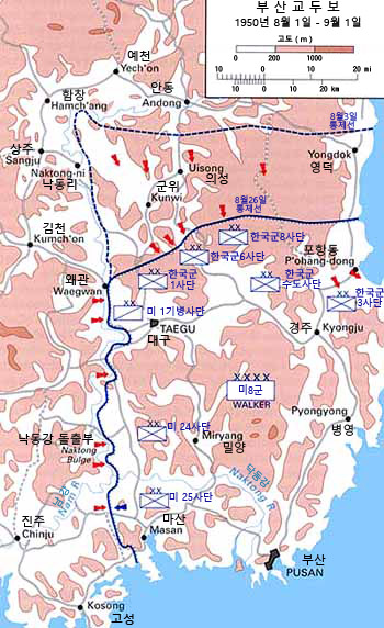 Map of the Pusan Perimeter, August 1950.